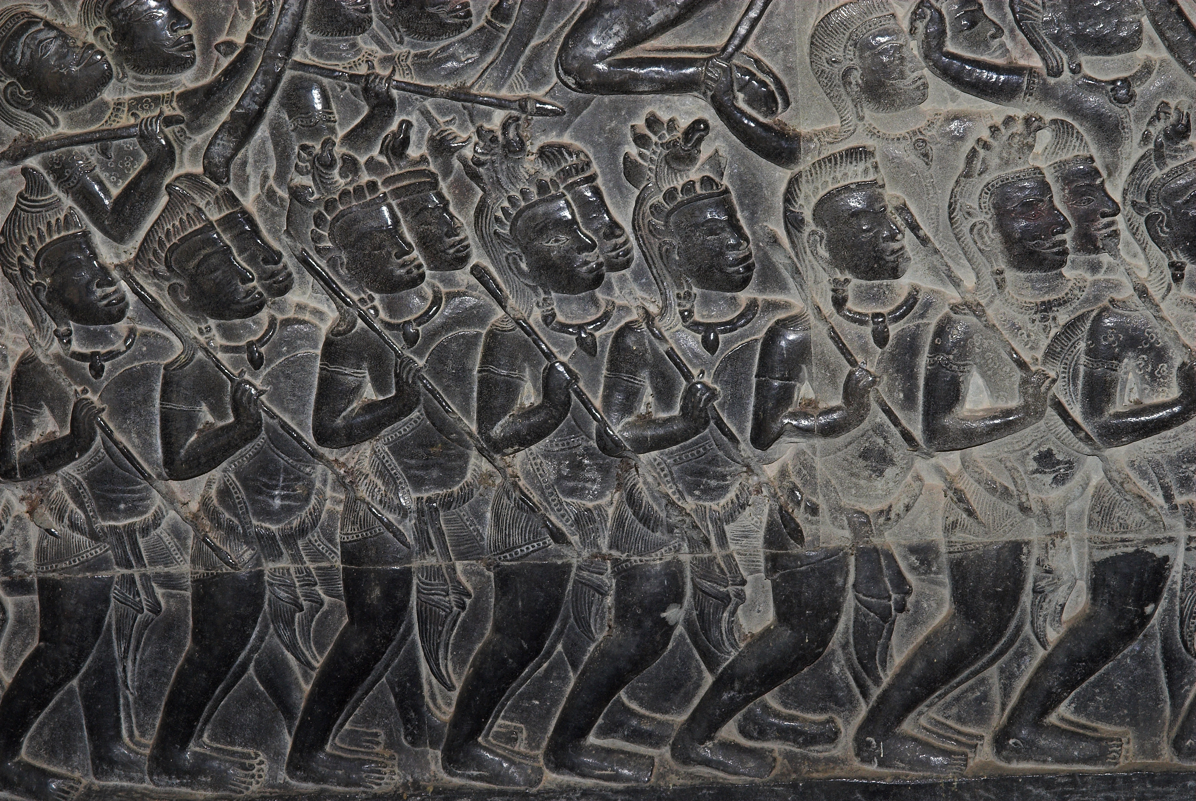 Scene from Kurukshetra War, Mahabharata, Angkor Wat